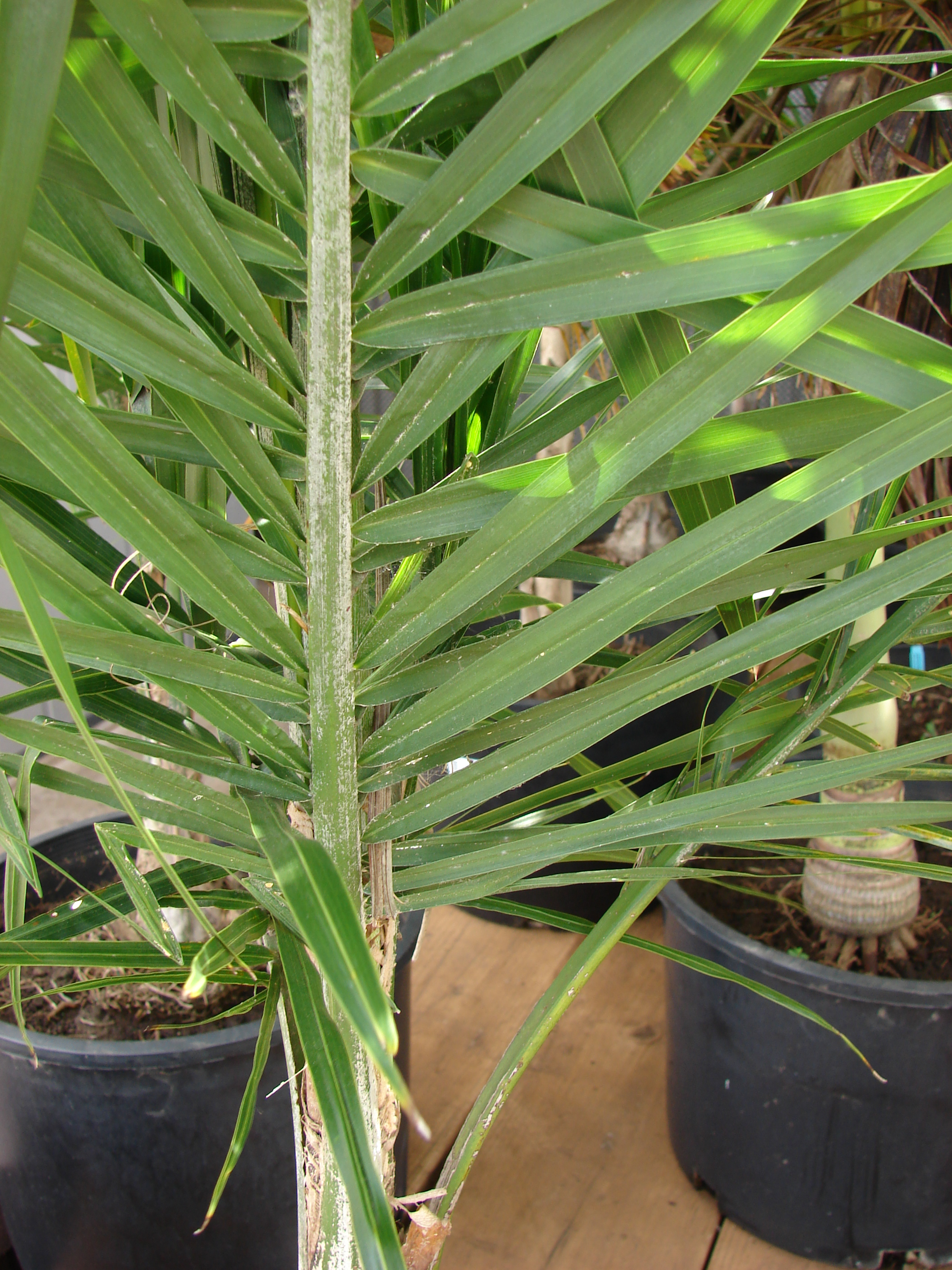 Syagrus romanzoffiana (habit). Location: Maui, Home Depot Nursery Kahului